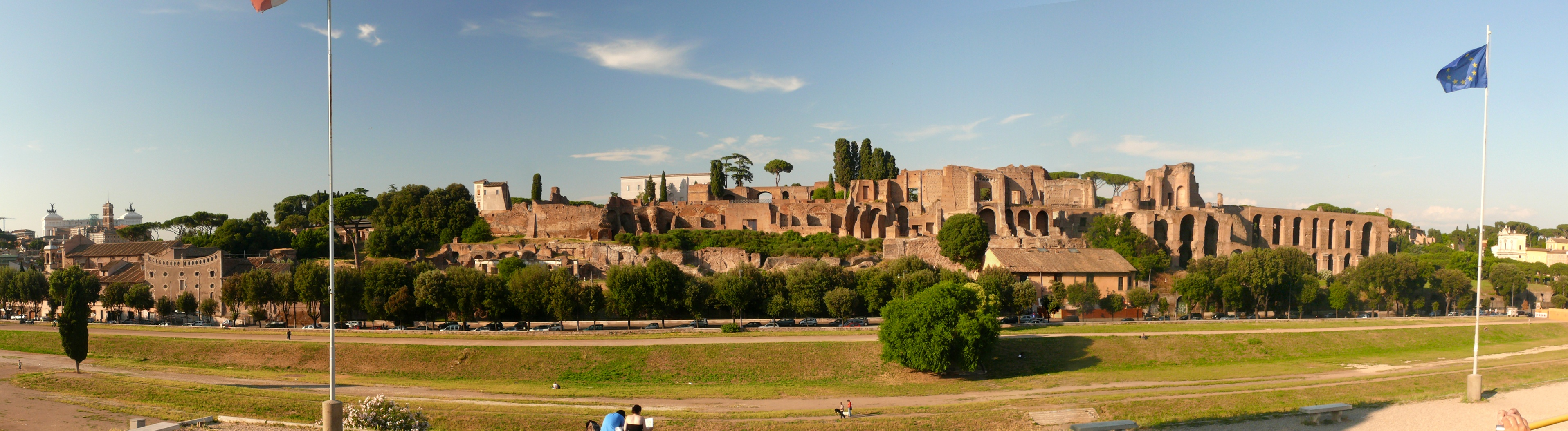 Palatin palaces of the ancient Roma